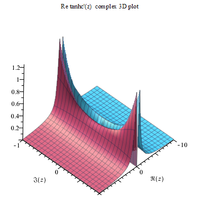 Tanhc'(z) Re complex 3D plot